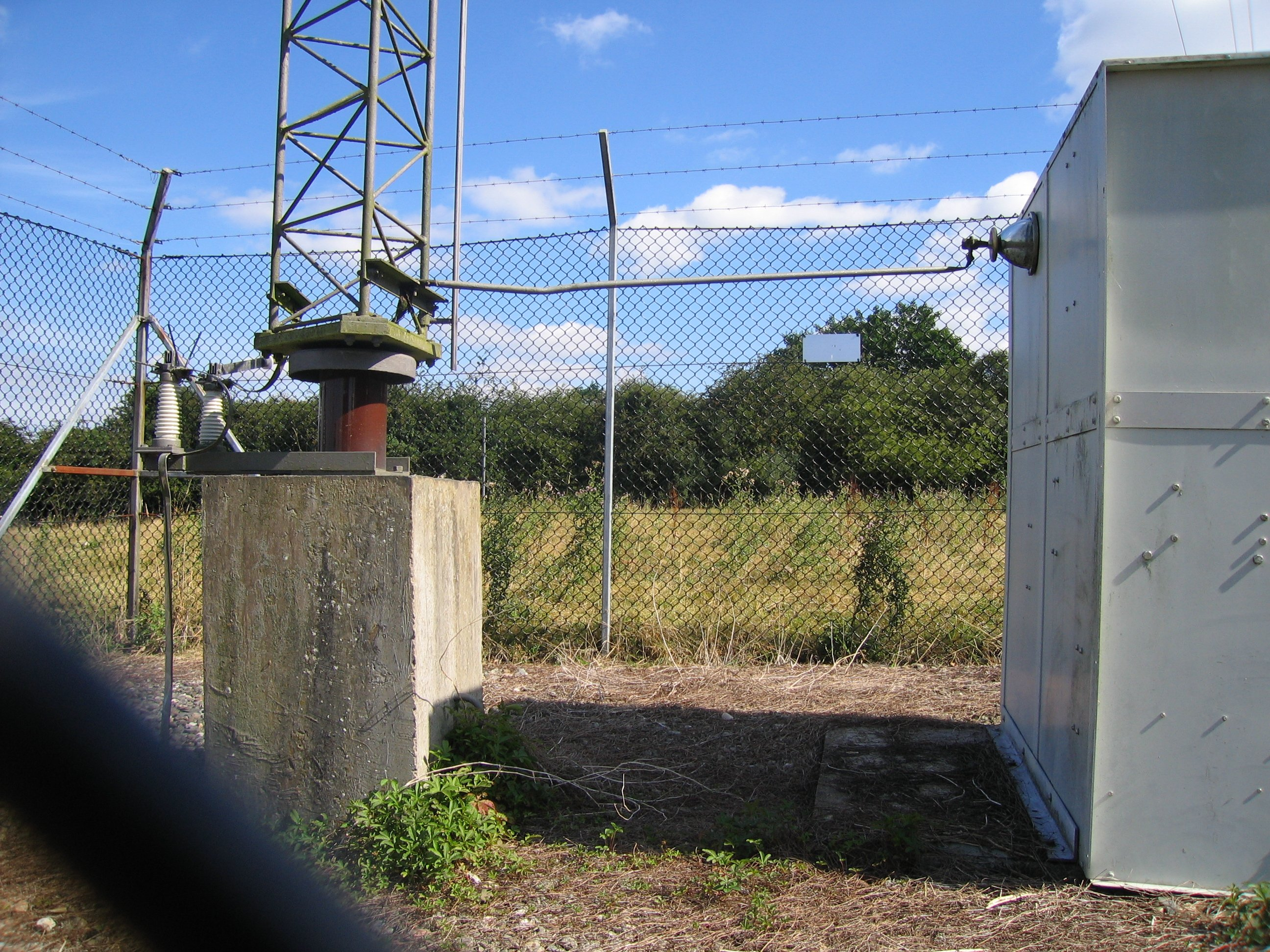 Base feed arrangement for mast radiator antenna of an AM radio station in Shrewsbury, owned by Crown Castle UK. The radio power is transported to the small shed at R called the helix house by a feedline. In the helix house is an antenna matching circuit to match the impedance of the line to the antenna. The power is applied to the antenna by a short cable bolted to the mast. On the left are a lightning arrester and antenna grounding switch.